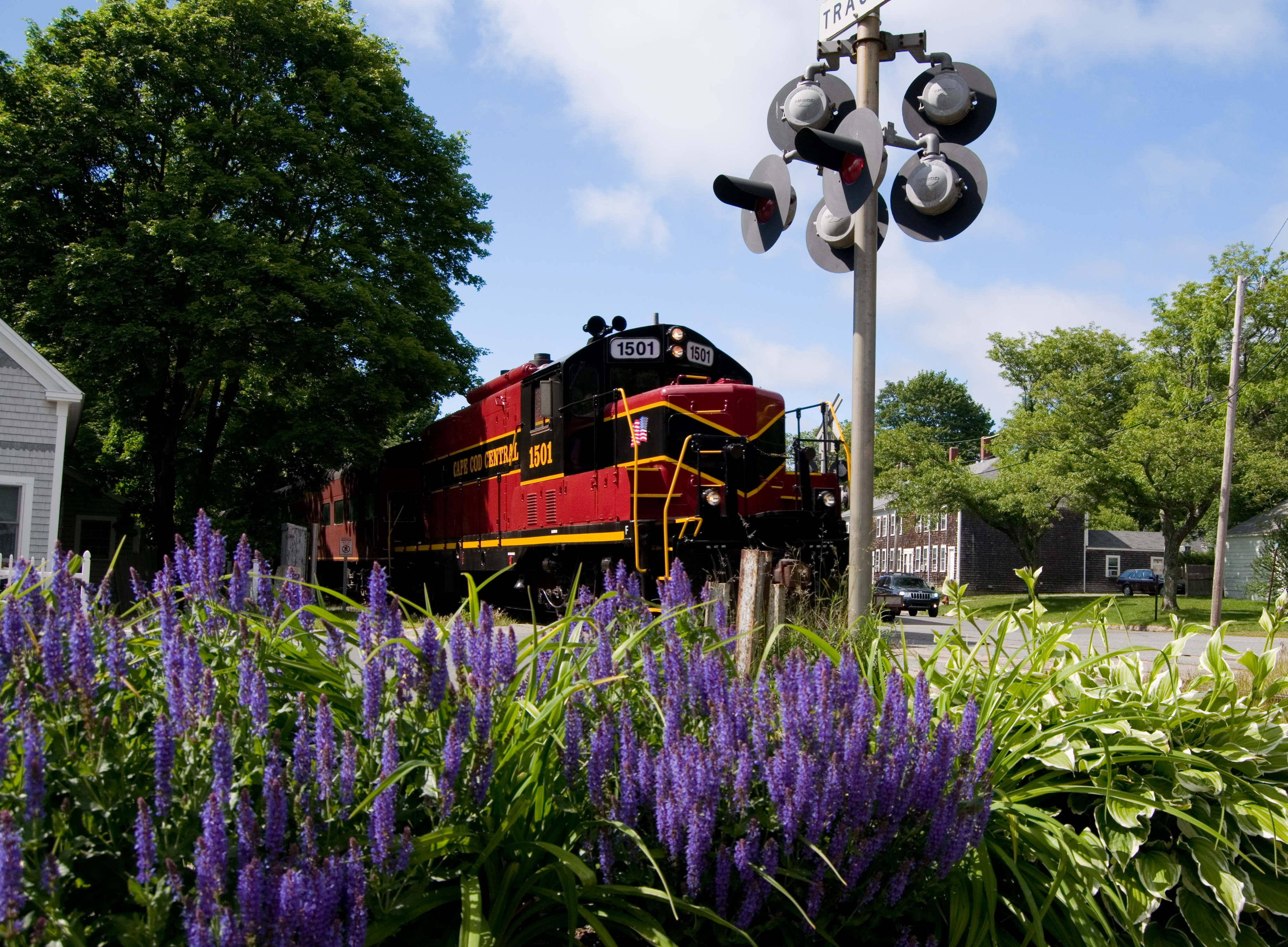 Cape Cod Central Railroad No. 1501